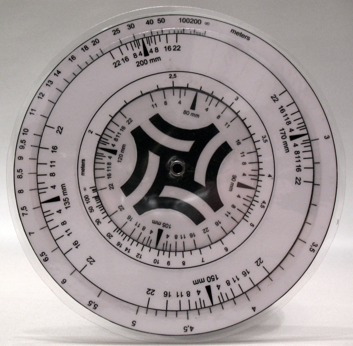 Circular slide rule for depth-of-field-calculations